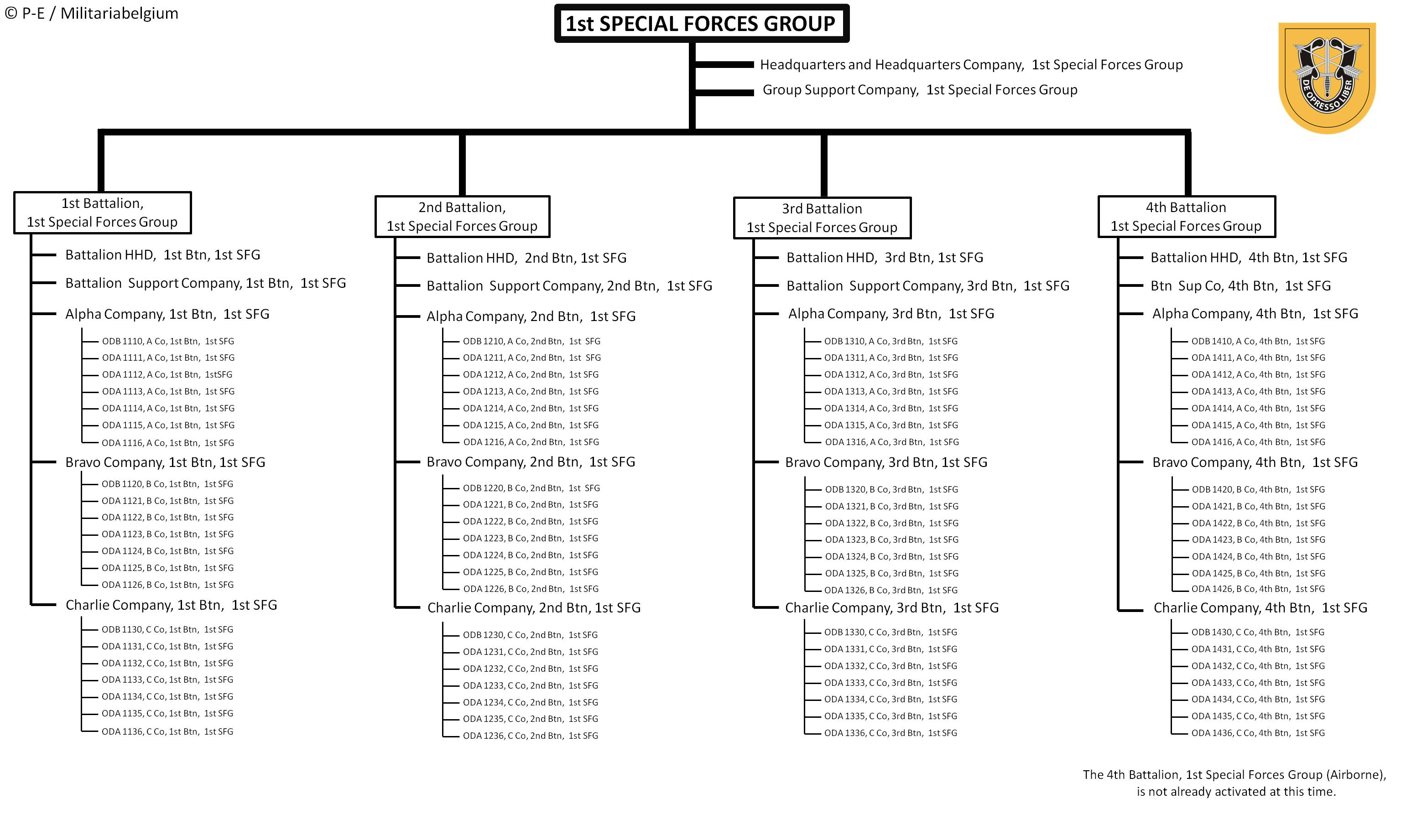 1st Special Forces Group - New 4-digit numbers ODA